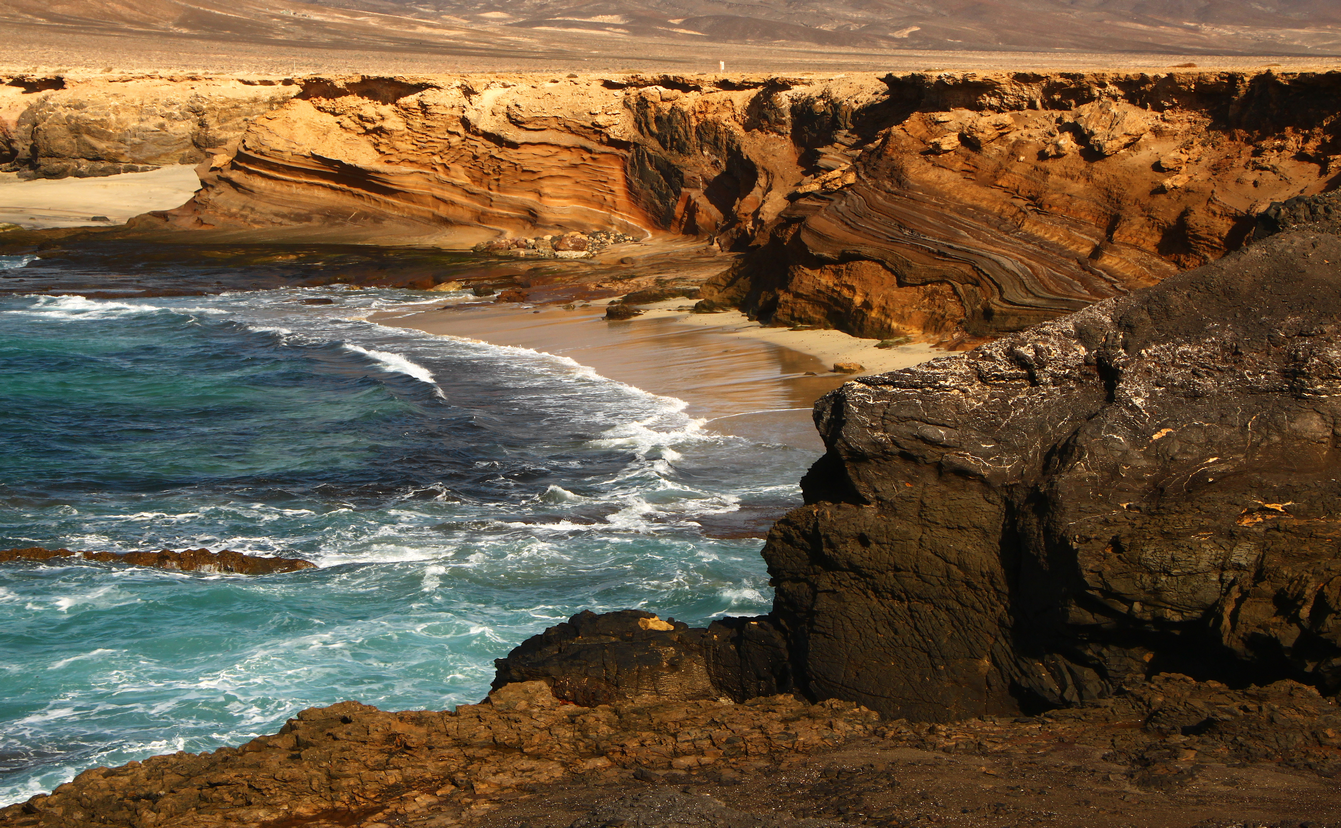 Coast at the Playa de Ojos north of Puertito de la Cruz, Fuerteventura, Canary Islands.